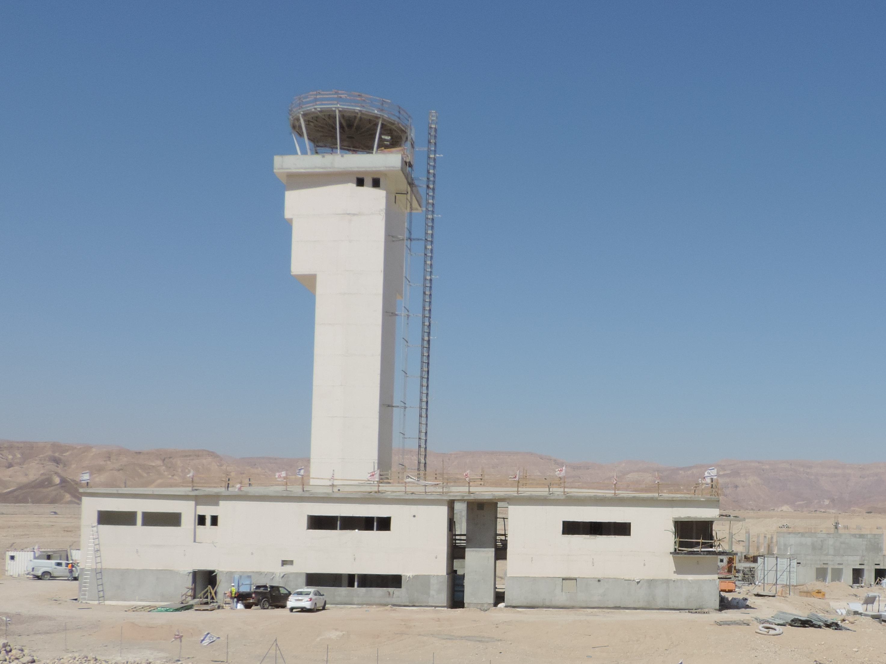 Ramon airport Tower